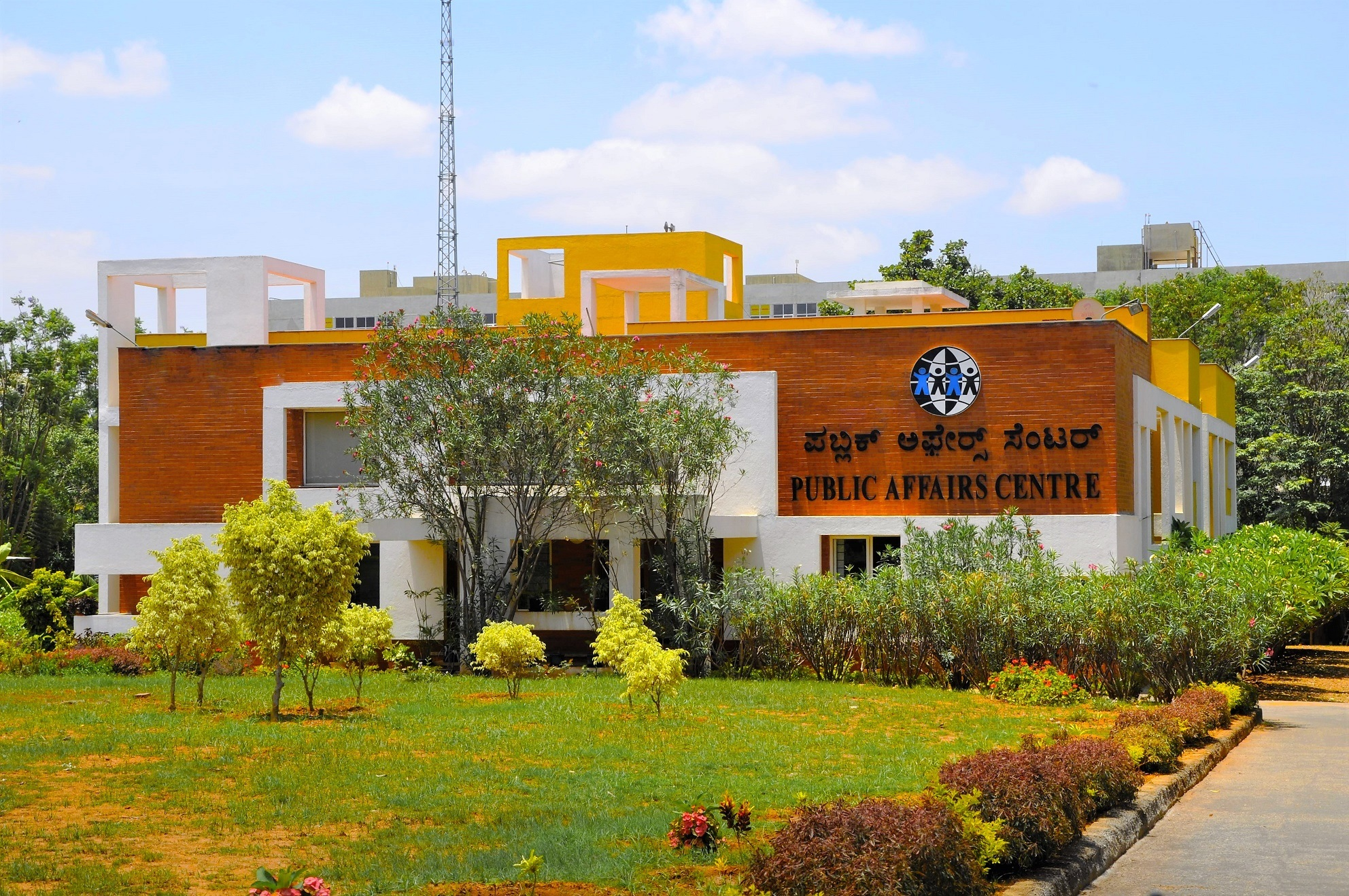 Publis Affairs Centre a not for profit think tank based in Bangalore committed to good governance.